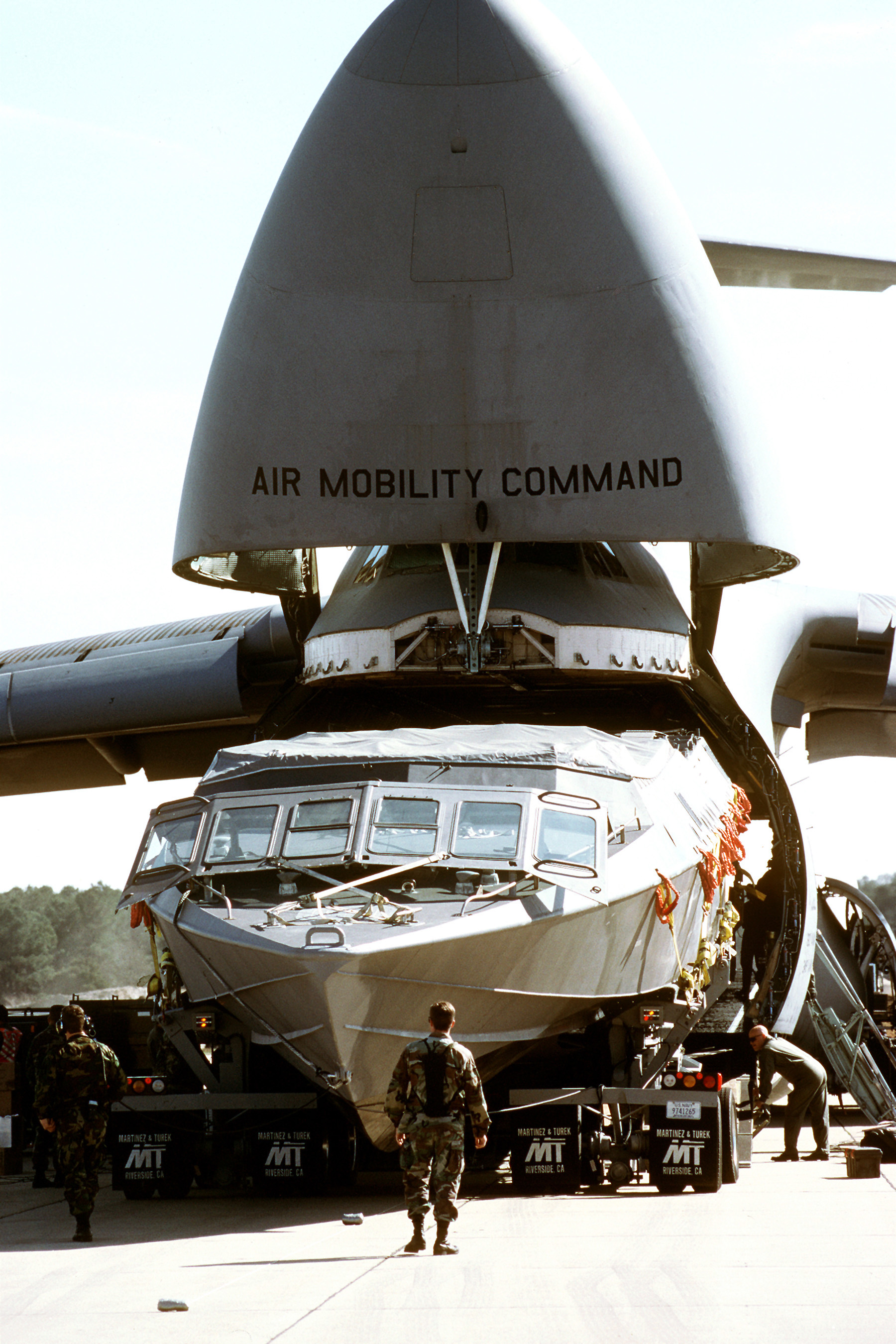 991001-F-0308N-001 A Navy Mark V special operations craft, a 50-ton, 82-foot-long speed boat used to insert and extract SEAL combat swimmers in and out of high-threat areas, is squeezed into a C-5 Galaxy aircraft from the 349th Air Mobility Wing, Travis Air Force Base, California, with only inches to spare. Not only do the loadmasters manage to wedge the boat aboard as well as the 18-wheel tractor trailor it sits on, but they also fit in a "deuce-and-a-half" truck (not shown), and a High-Mobility Multipurpose Wheeled Vehicle (HMMWV) and trailer (not shown). The Mark V and its trailer were constructed with the C-5 and rapid global mobility in mind. This photograph was used in the October 1999 issue of Airman Magazine.